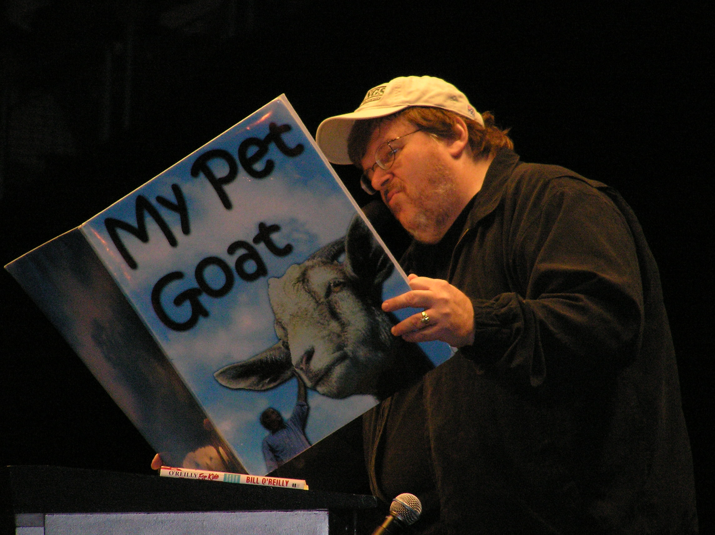 Michael Moore parodies George Bush 9/11 photo op